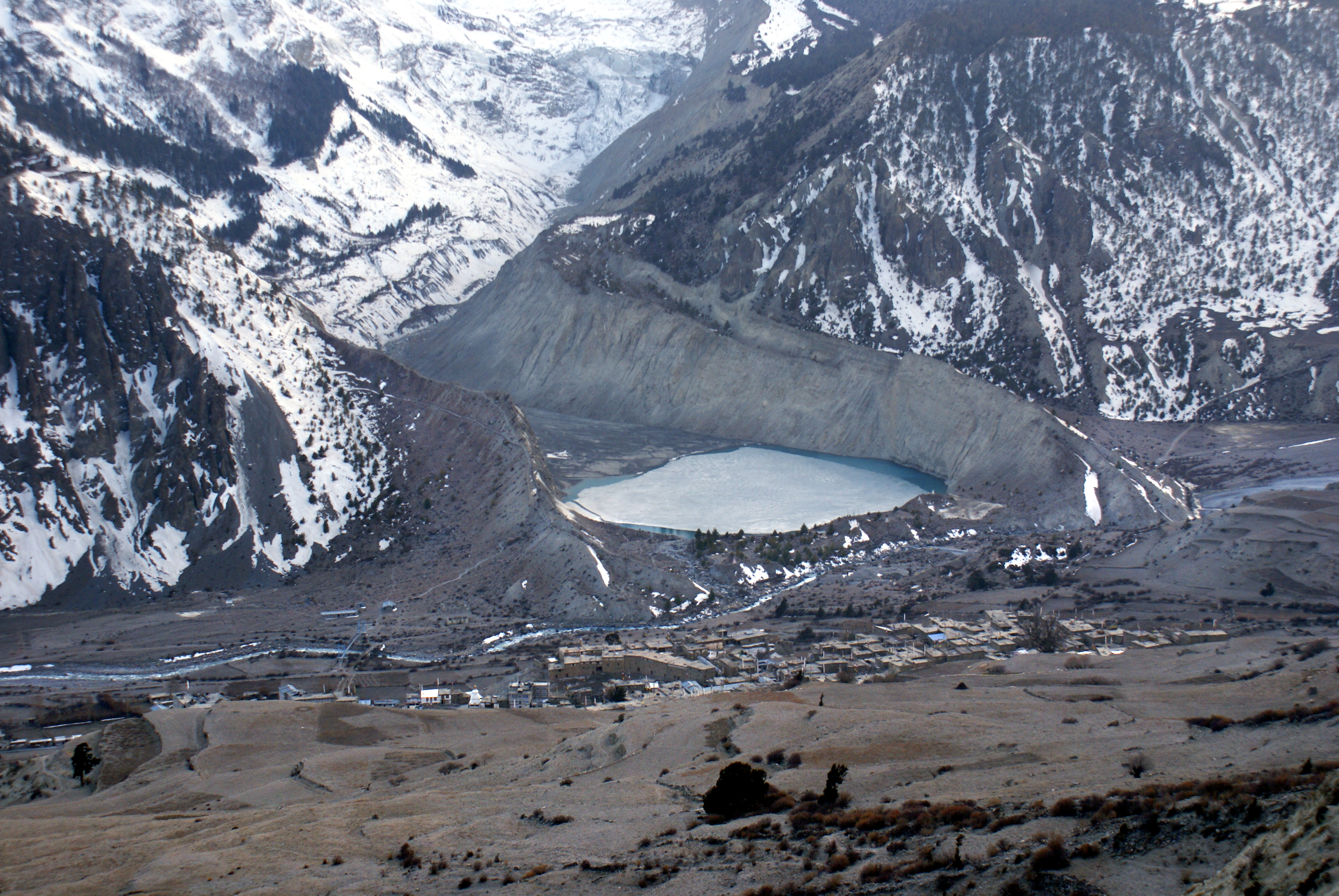 Damodar Himal